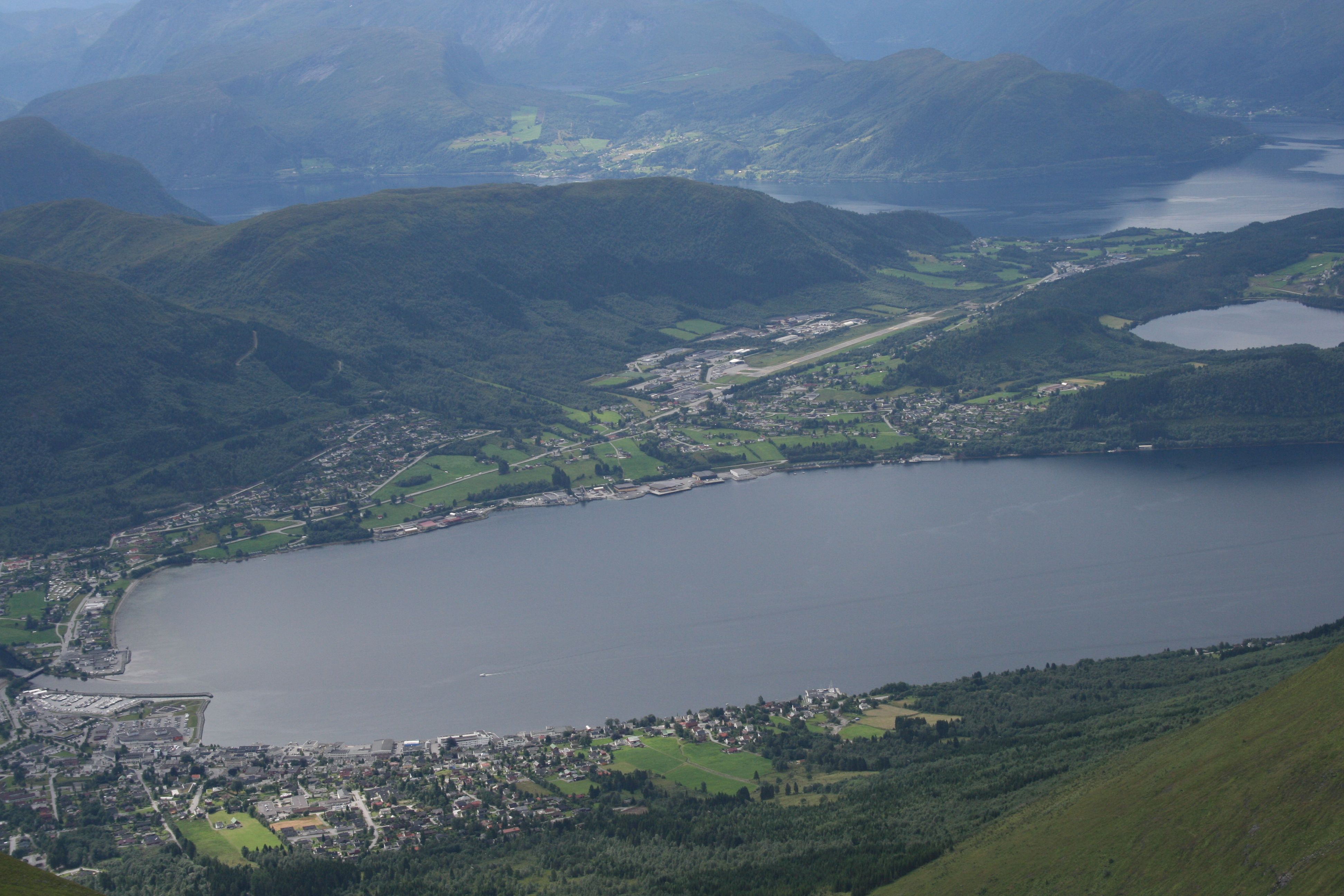 Hovdebygda, Ørsta, NorawyNorsk nynorsk: Hovdebygda, sett frå Saudehornet i august 2010